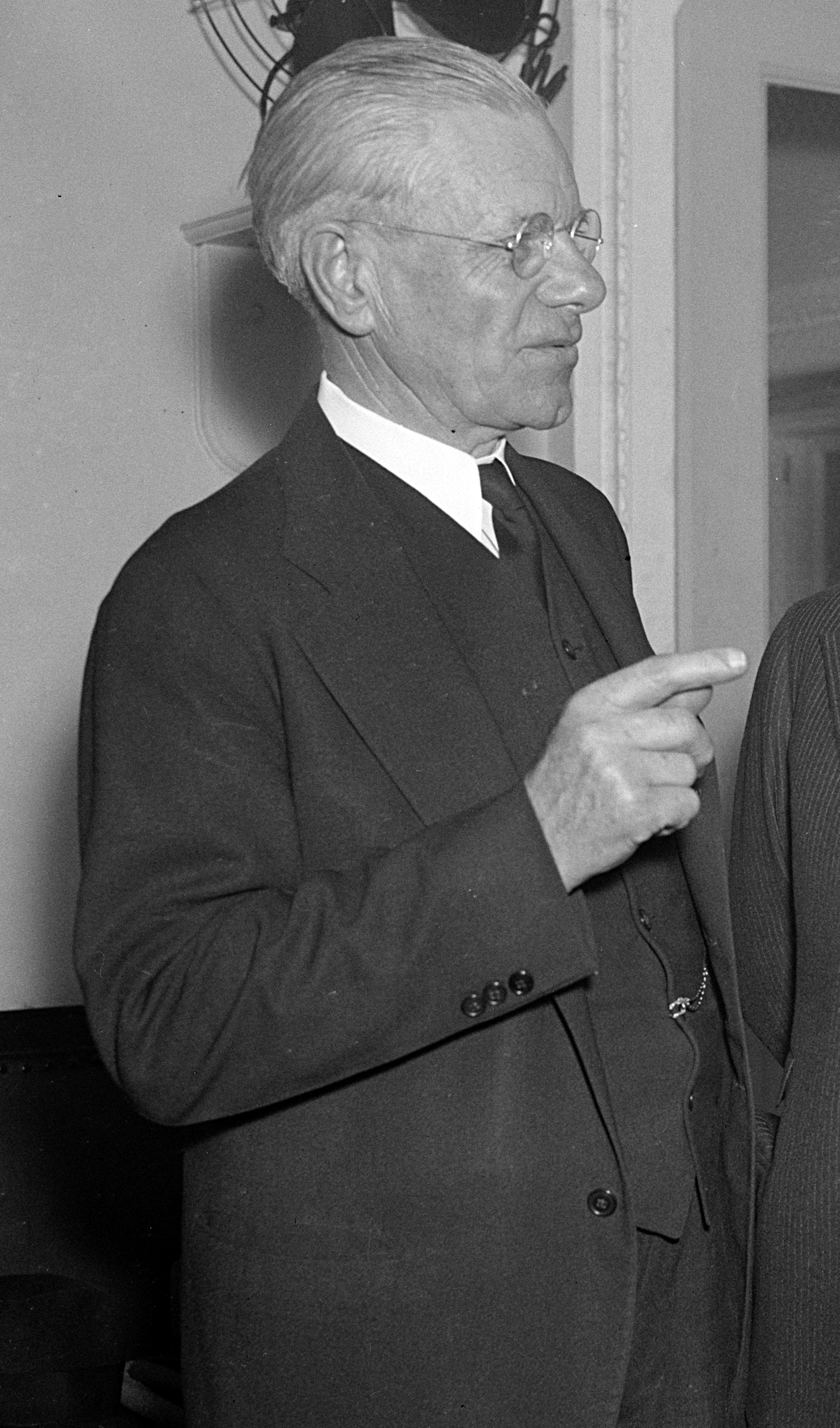 Bert Lord, US Representative from New York